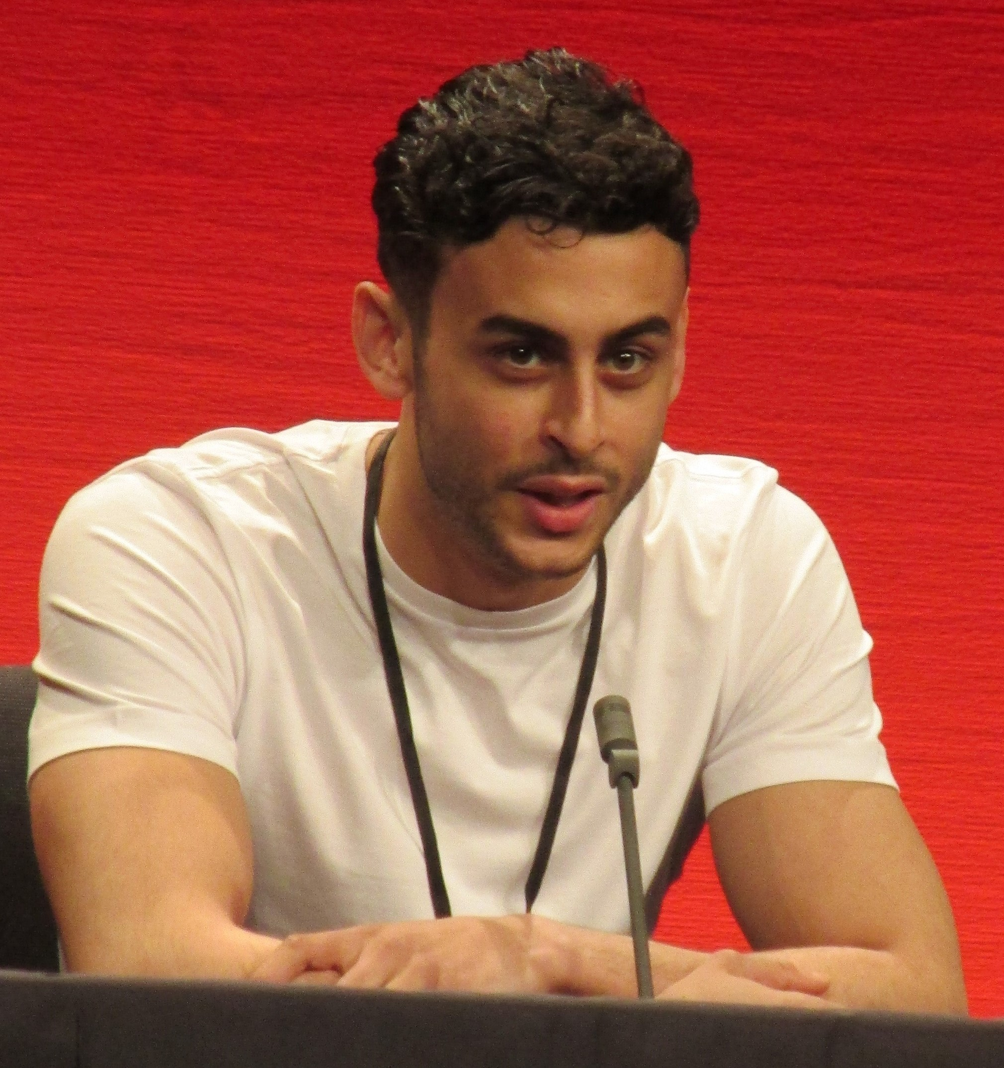 Fady in March 2017